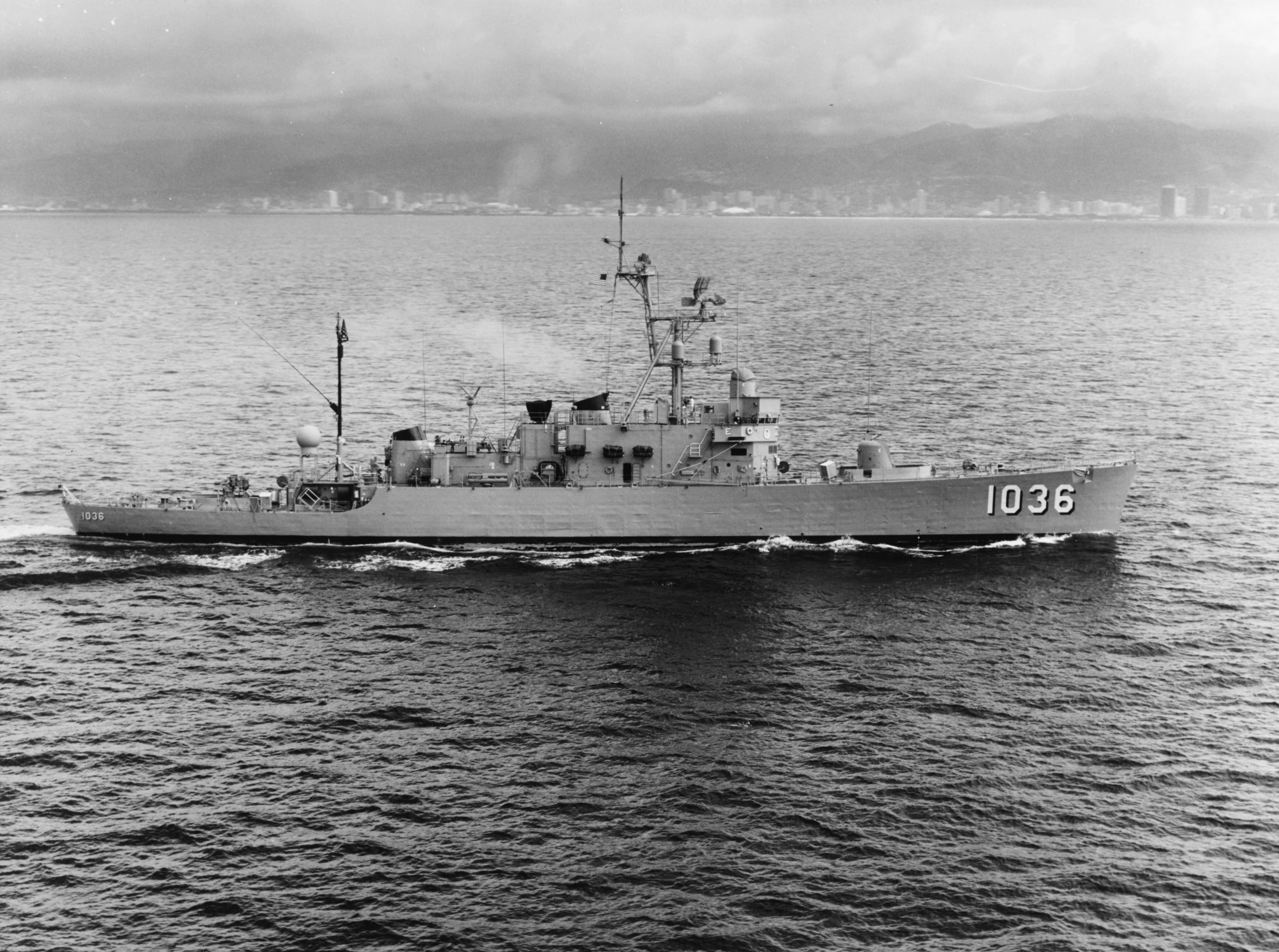 The U.S. Navy destroyer escort USS McMorris (DE-1036) underway off Oahu, Hawaii (USA), on 10 March 1972. Note "Spooky" electronics arrays fitted to this class of destroyer escorts.